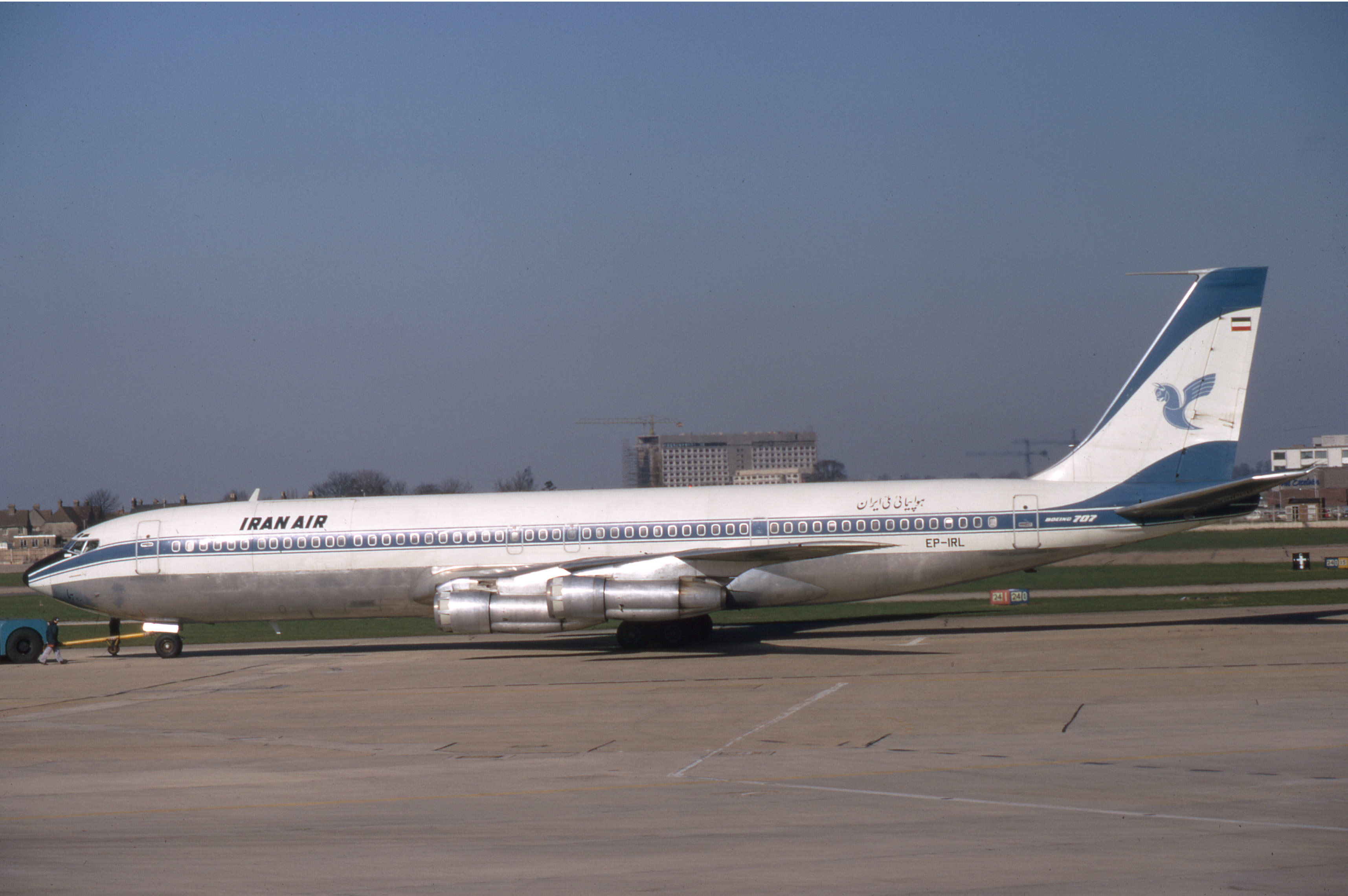 Heathrow 1974